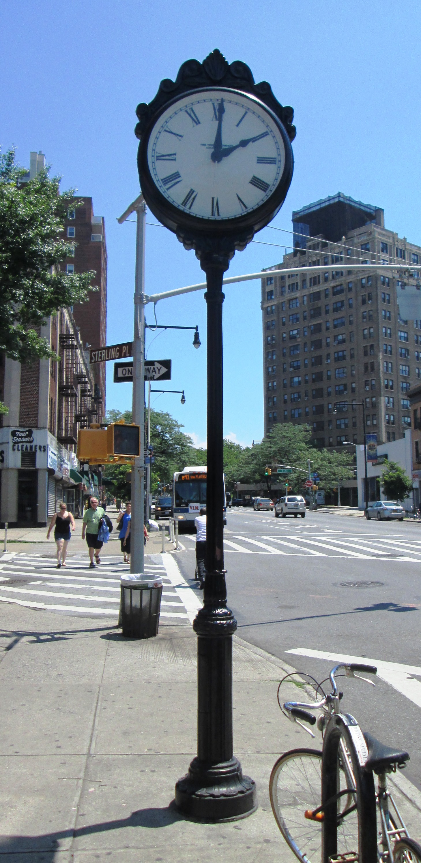 A sidewalk clock at 377 Flatbush Avenue at the corner of Sterling Place in the Prospect Heights neighborhood of Brooklyn, New York City.